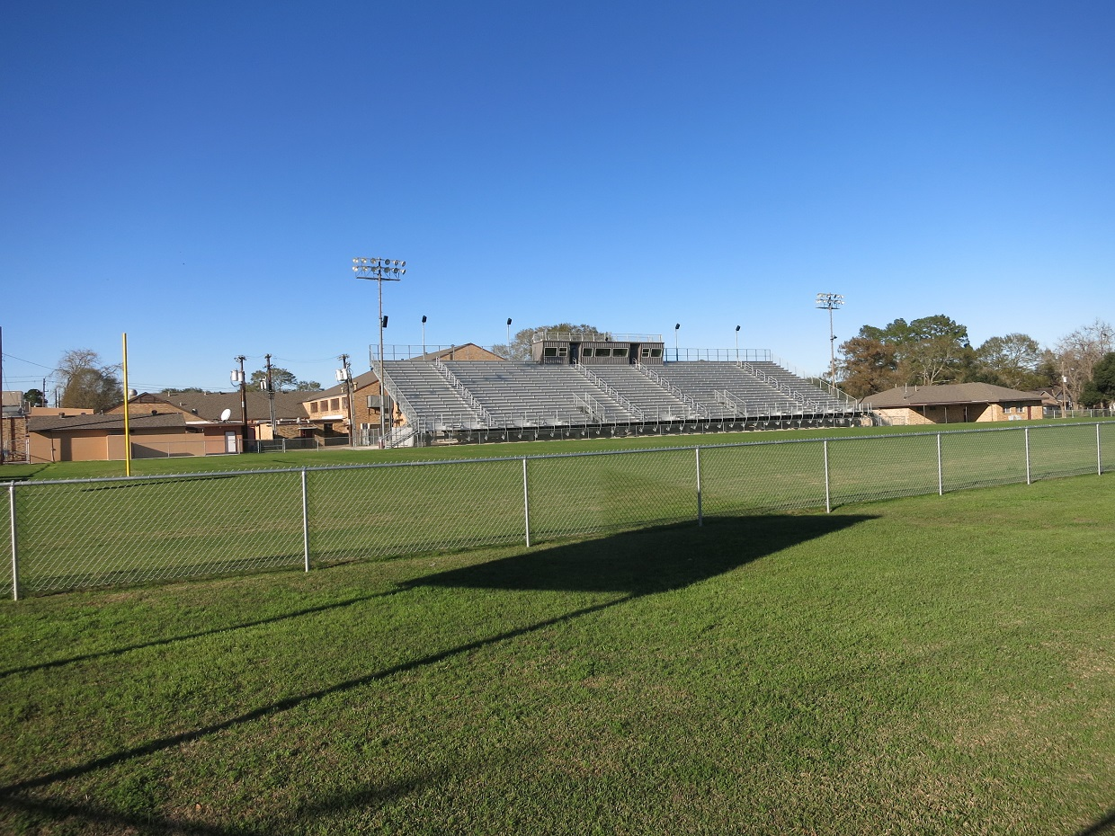 Photo show Memorial Stadium at 723 College St, East Bernard, TX 77435. View is toward the north.